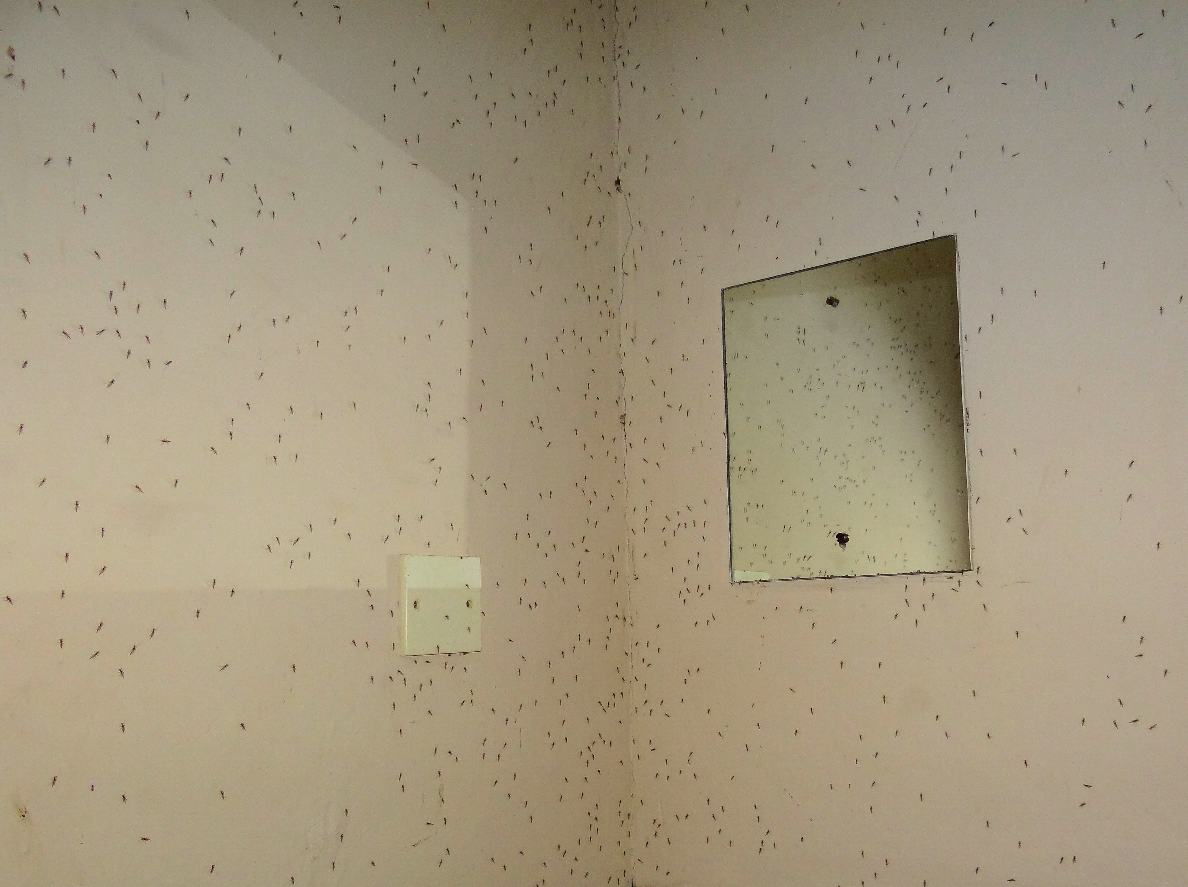 The walls of a bathroom on the shores of Lake Victoria, Tanzania, have been sprayed with DDT. Mosquitoes landing on the walls remain there until they die and fall down, instead of flying off to possibly infect people with malaria.